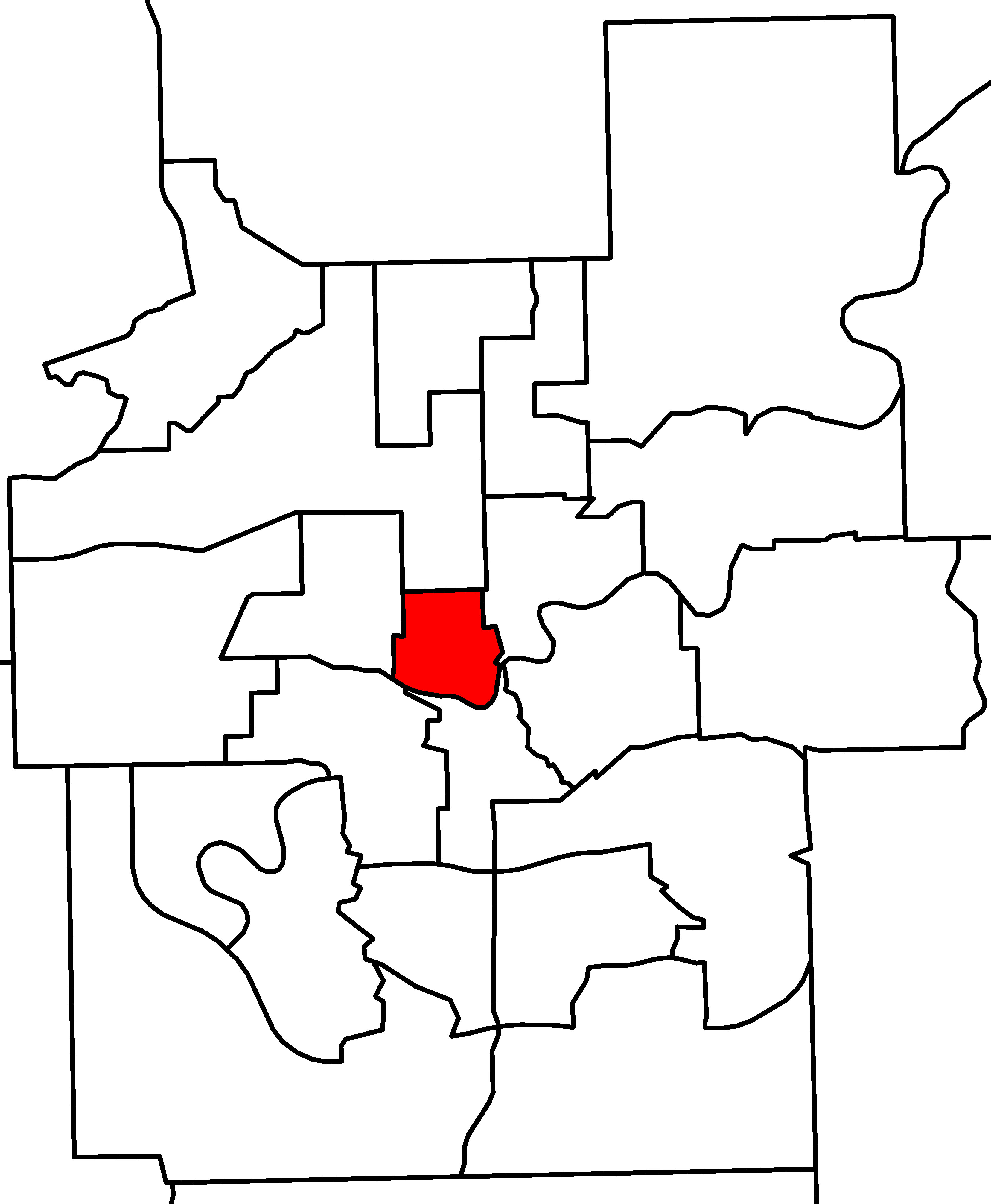 A map of Alberta provincial electoral districts, effective 2010, in the Edmonton area. Edmonton-Centre is highlighted in red.